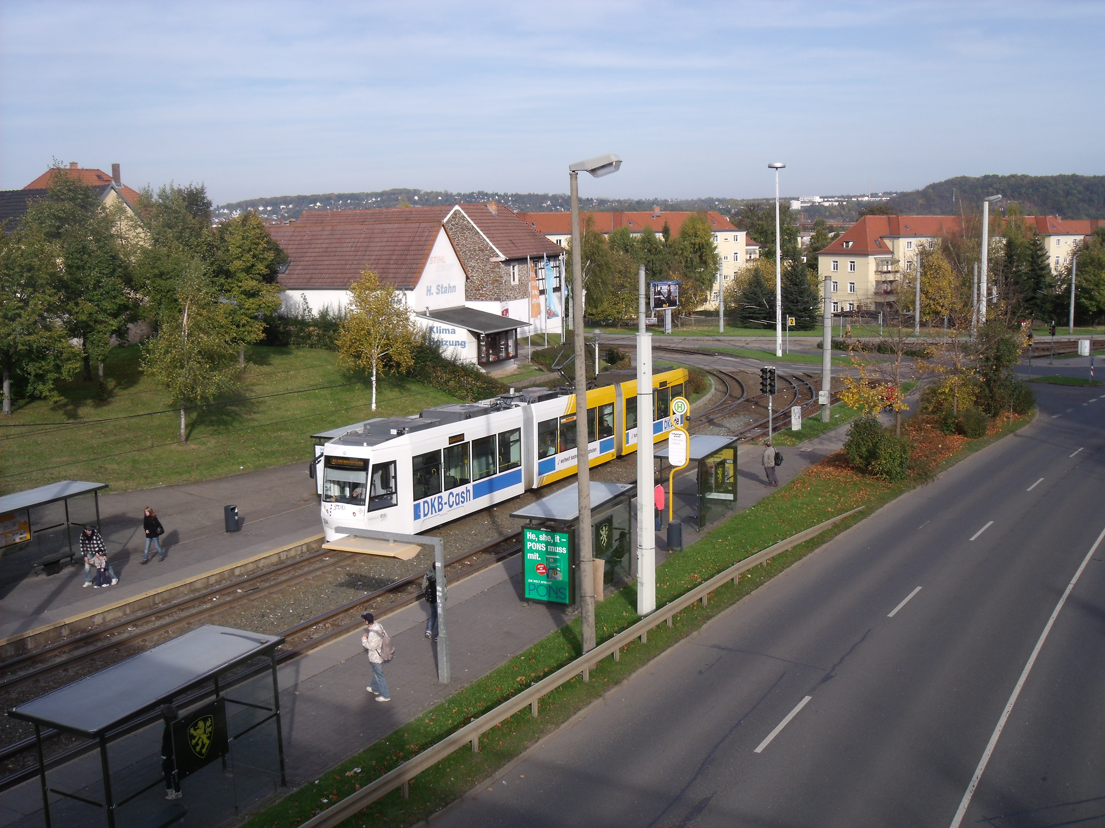 Lusan housing estate in Gera, Germany, in the year 2010: Line 2 tramway at Fußgängerbrücke station, seen from the pedestrian bridge over Nürnberger Straße